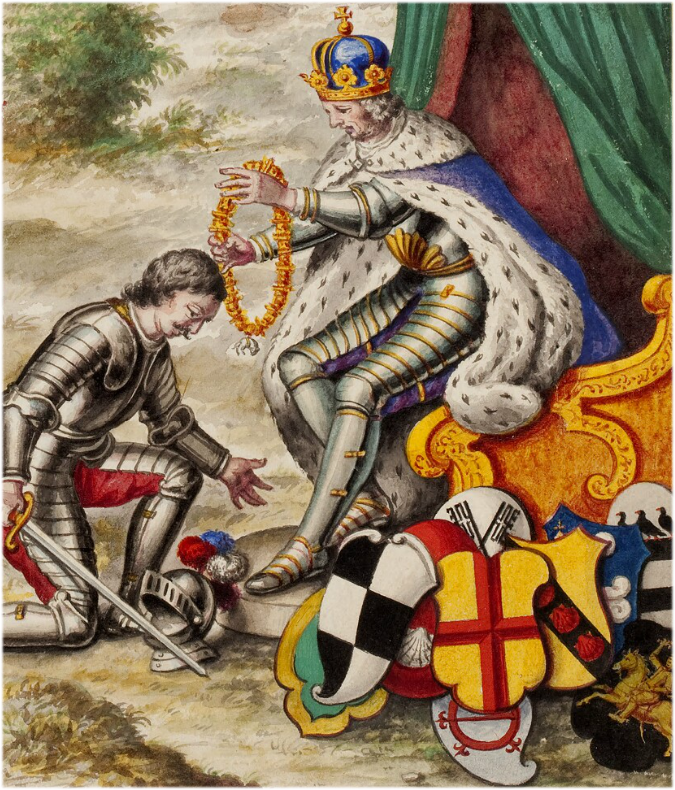 Nobility of Gelre, part of Allegorische en historiserende voorstelling van de deugden van de Gelderse adel